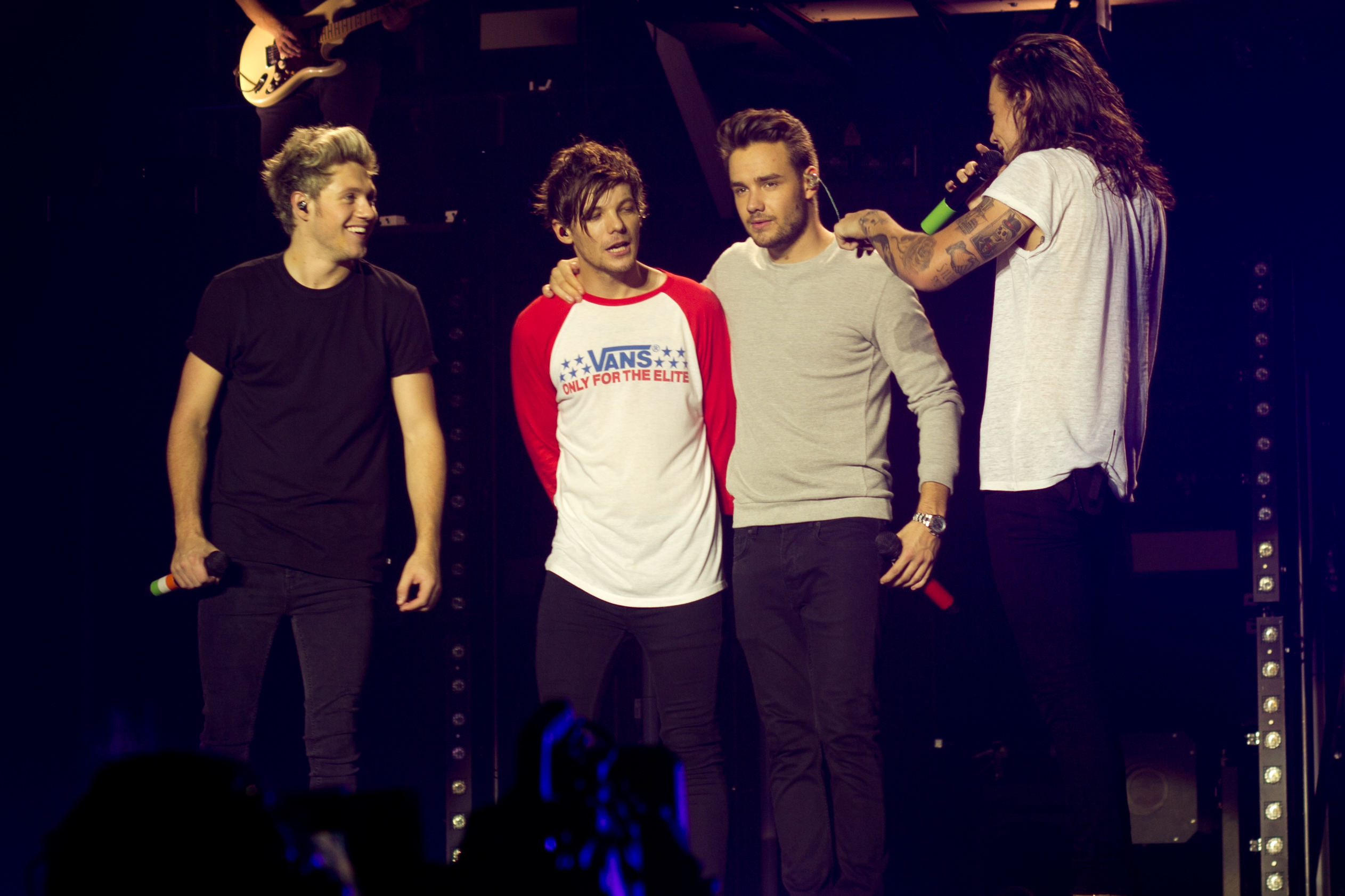 One Direction - On The Road Again (Birmingham)